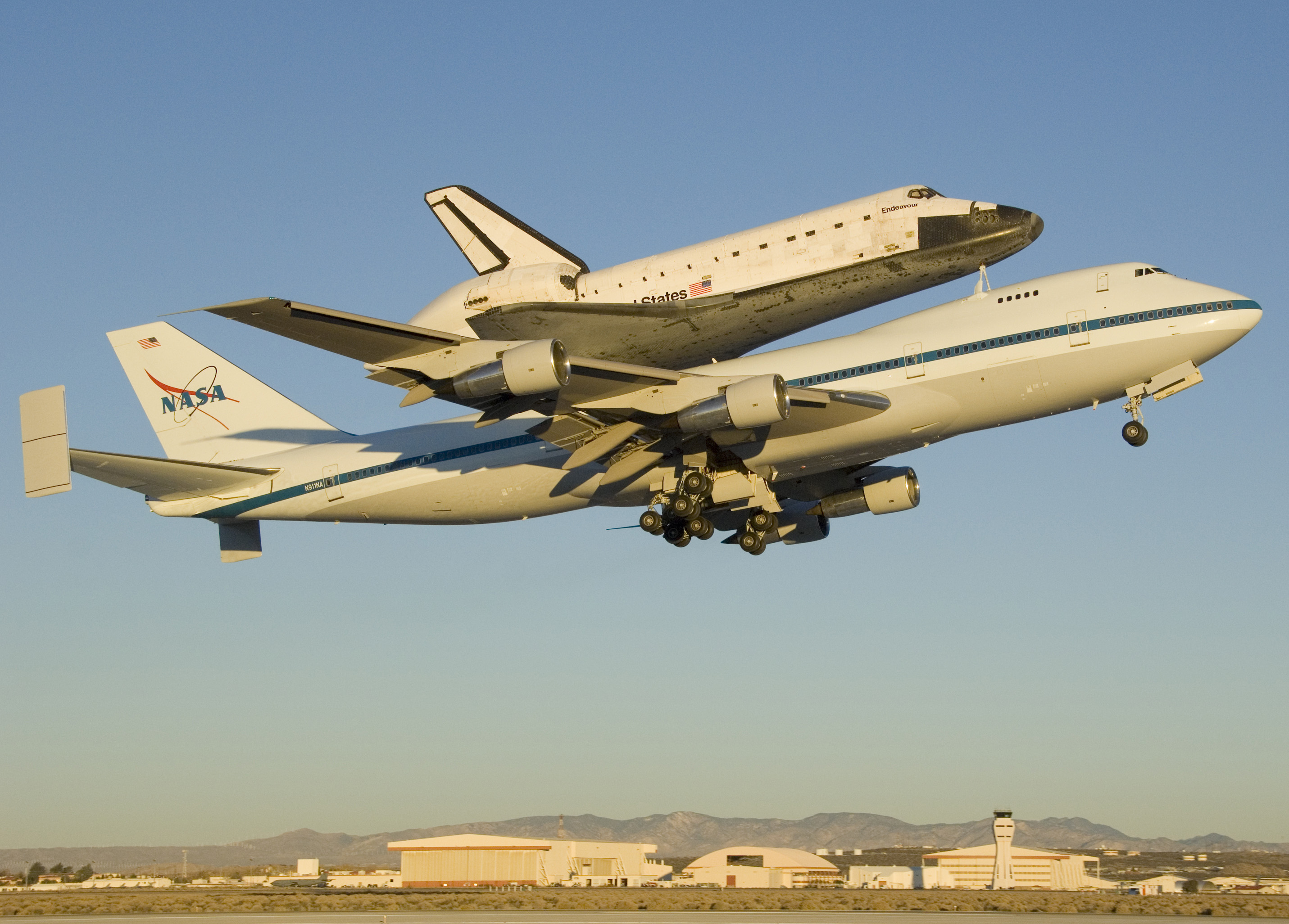 The Space Shuttle Endeavour atop its modified Boeing 747 carrier aircraft lifts off from Edwards Air Force Base on the first leg of its ferry flight back to the Kennedy Space Center just after sunrise on Dec. 10, 2008.